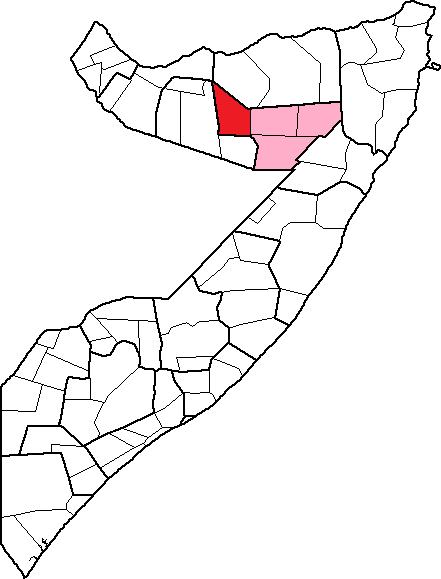 Aynabo district of Somalia